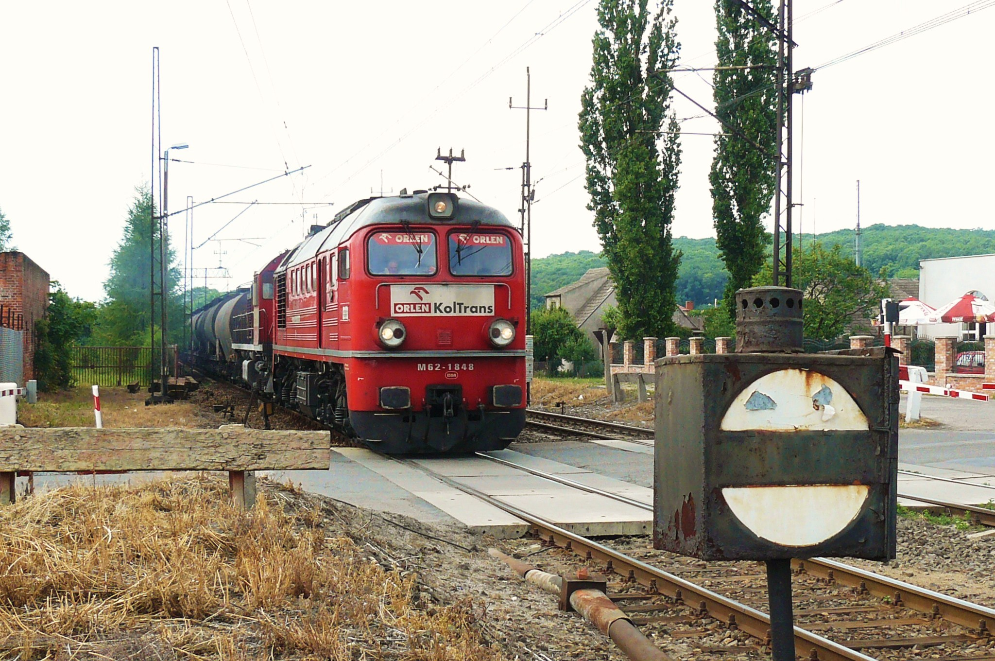 Orlen KolTrans Train in Osiek nad Notecią.